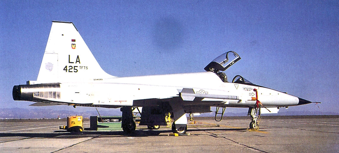 425th Tactical Fighter Training Squadron - Northrop F-5E Tiger II 72-1400. Aircraft was sold to Brazil in 1990.